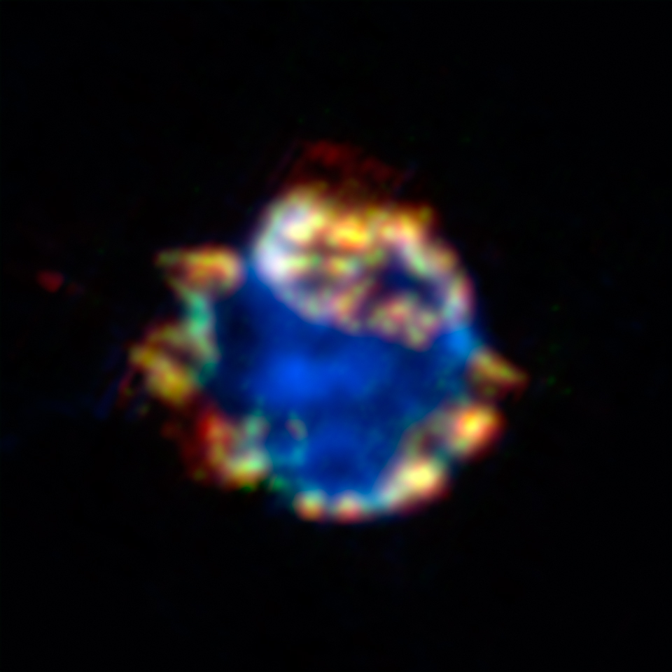 This beautiful bulb might look like a Christmas ornament but it is the blown-out remains of a stellar explosion, or supernova. The remains, called Cassiopeia A, are shown here in an infrared composite from NASA's Spitzer Space Telescope. Silicon gas is blue and argon gas is green, while red represents about 10,000 Earth masses worth of dust. Yellow shows areas where red and green overlap. The fact that the red and green do overlap indicates that this supernova is synthesizing dust and gas together. This is the smoking gun indicating that supernovae were significant suppliers of fresh dust in the very early universe -- something that was hard to demonstrate prior to the Spitzer observations. The data for these images were taken by Spitzer's infrared spectrograph, which splits light apart to reveal the fingerprints of molecules and elements. In total, Spitzer collected separate "spectra" at more than 1,700 positions across Cassiopeia A. Astronomers then created maps from this massive grid of data, showing the remnant in a multitude of infrared colors.